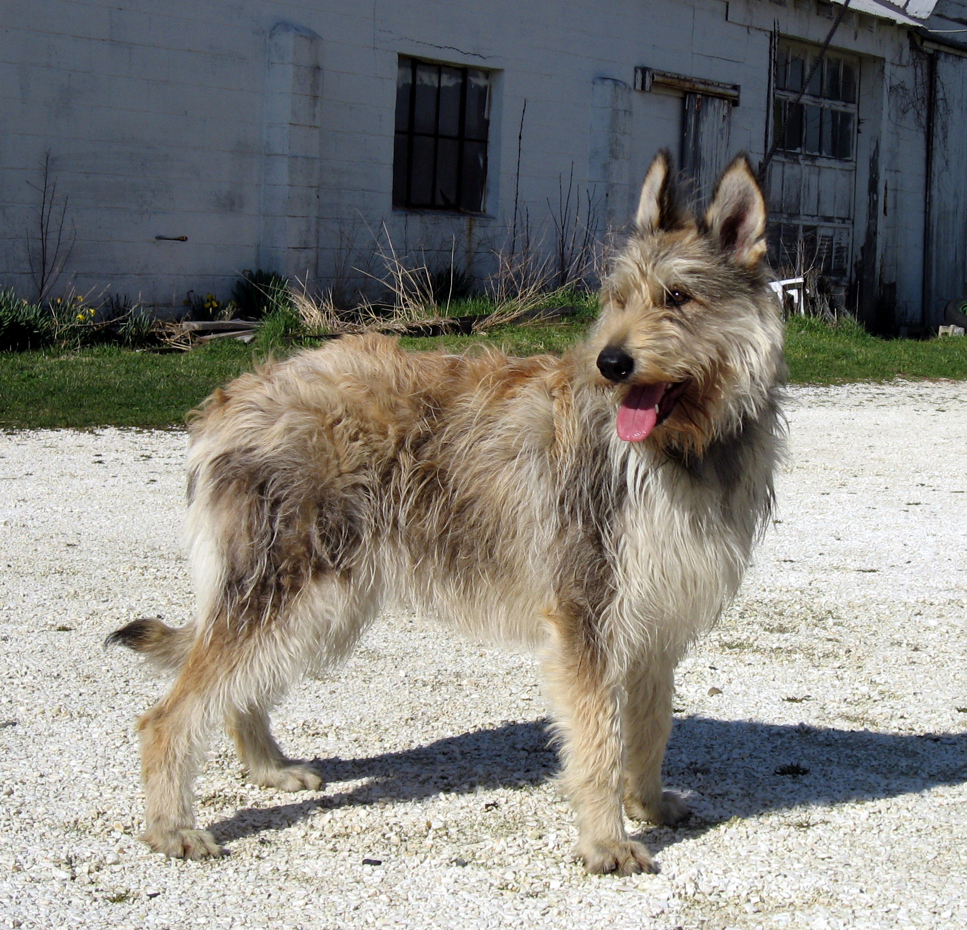 Berger Picard, fauve charbonne (fawn)